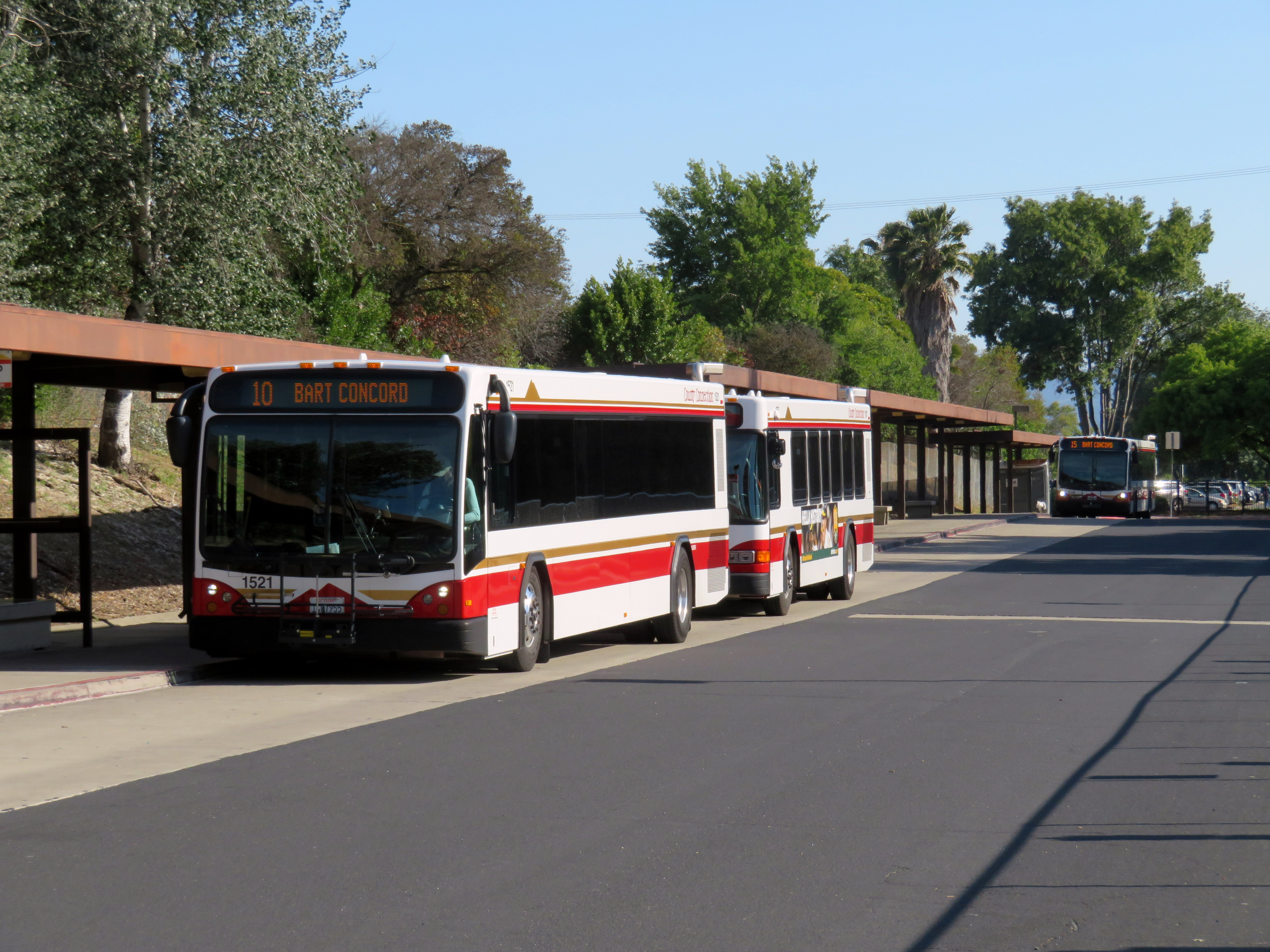 County Connection bus at Concord station in May 2018